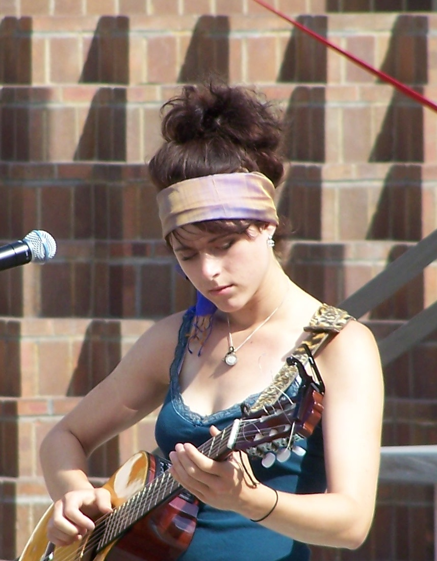 Kiesza performed at Olympic Plaza in downtown Calgary, Alberta, Canada.